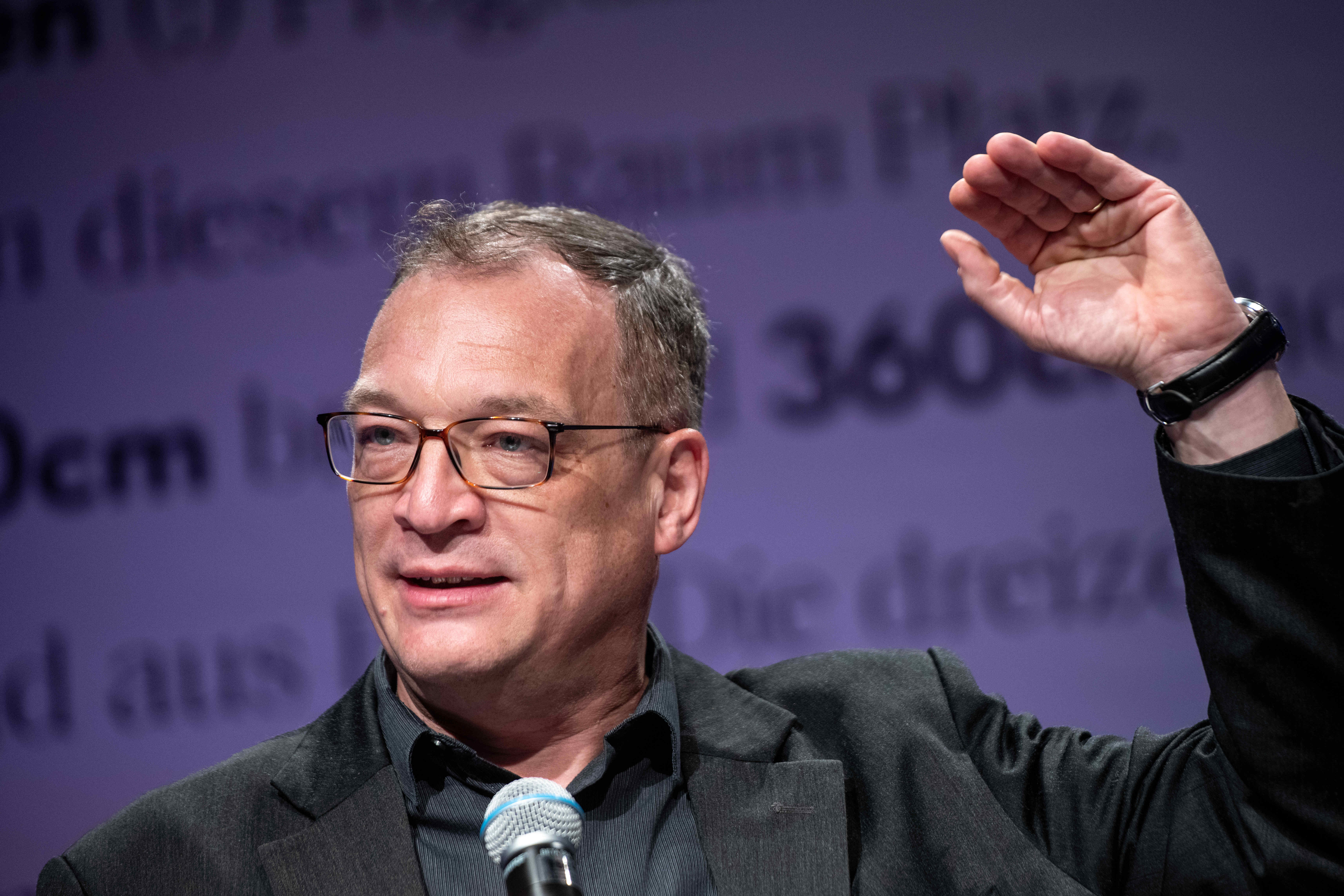 Talk: Piazza virtuale: A Social Medium before the Internet Speaker: Tilman Baumgärtel